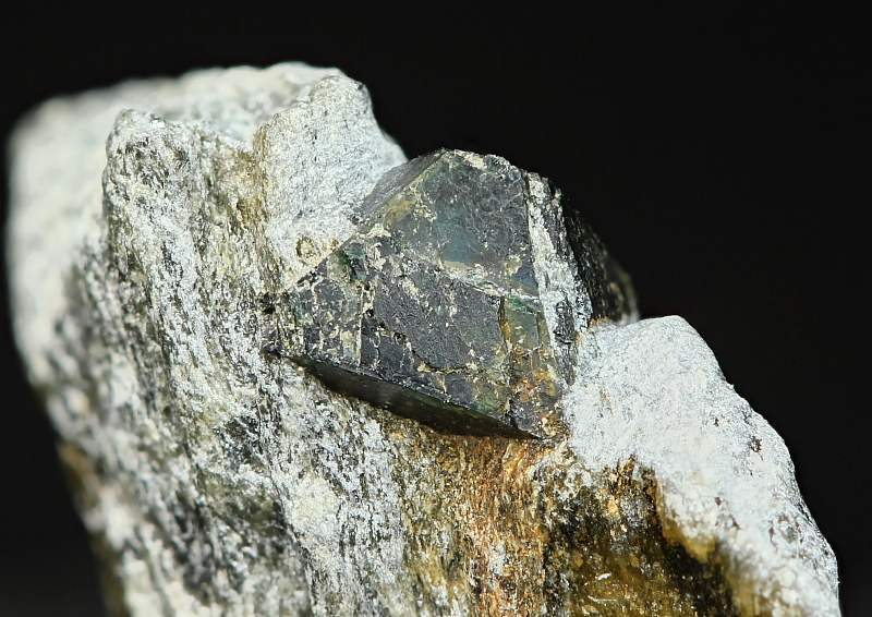 Gahnite Locality: Näverberg mine, Näverberg mines, Falun, Dalarna, Sweden 6 mm dark green gahnite. An older specimen with label of Tekn. Högskolans Mineralog. Avd.